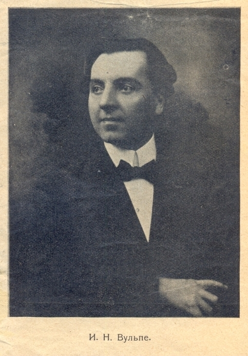 Bulgarian opera singer Ivan Vulpe - a photo in a newspaper clip in the archives of Stefan Makedonski